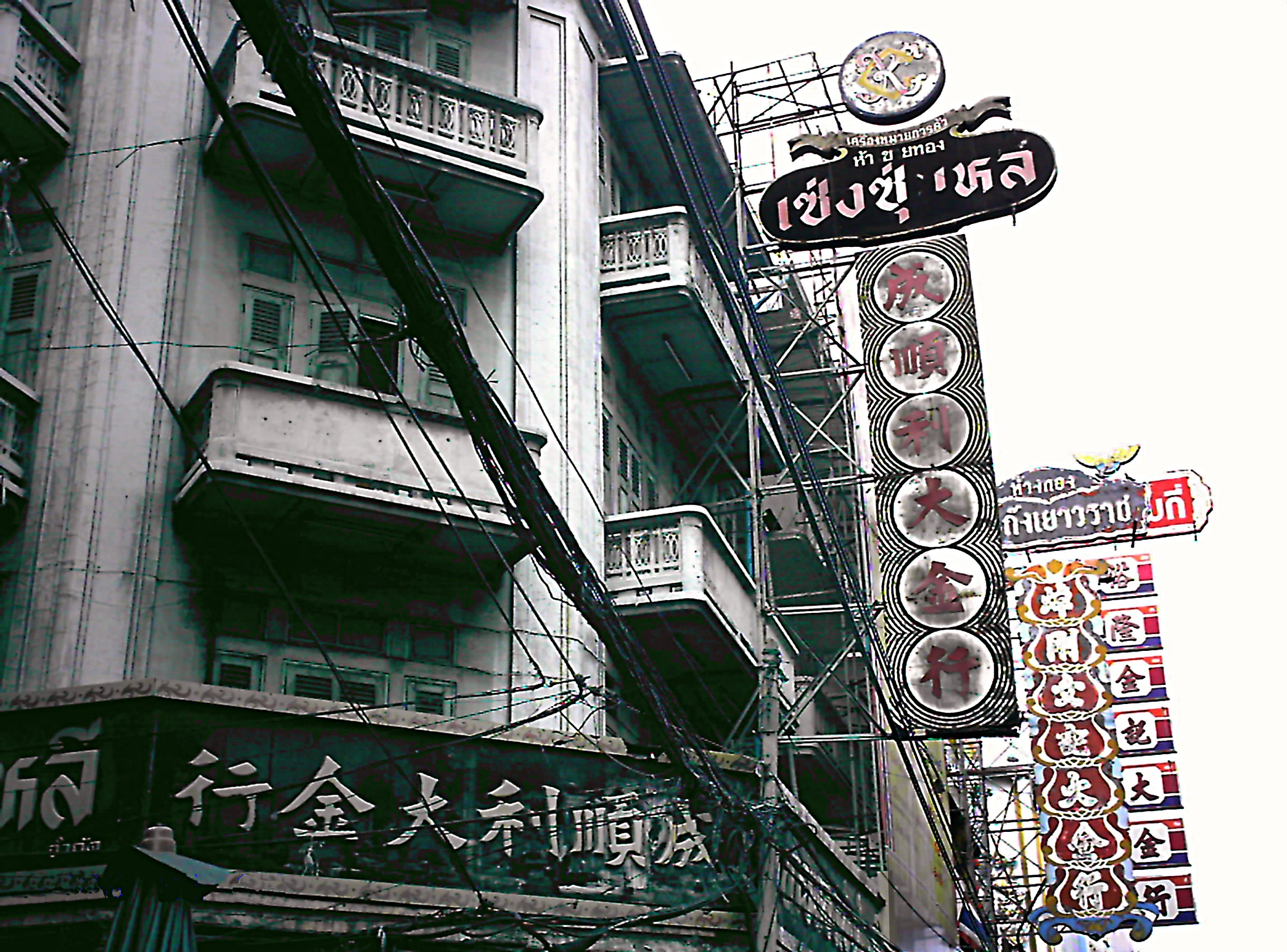 Thanon Mangkon, Bangkok, Thailand 中文（香港）: 泰國 曼谷 演說街 成順利大金行 (東舞臺)